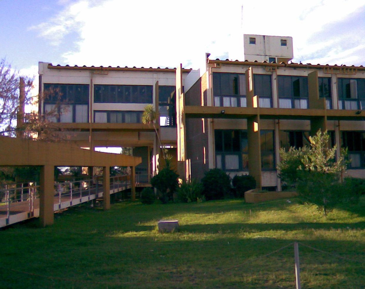 Edificio de la Cámara de diputados de La Pampa, acceso lateral.